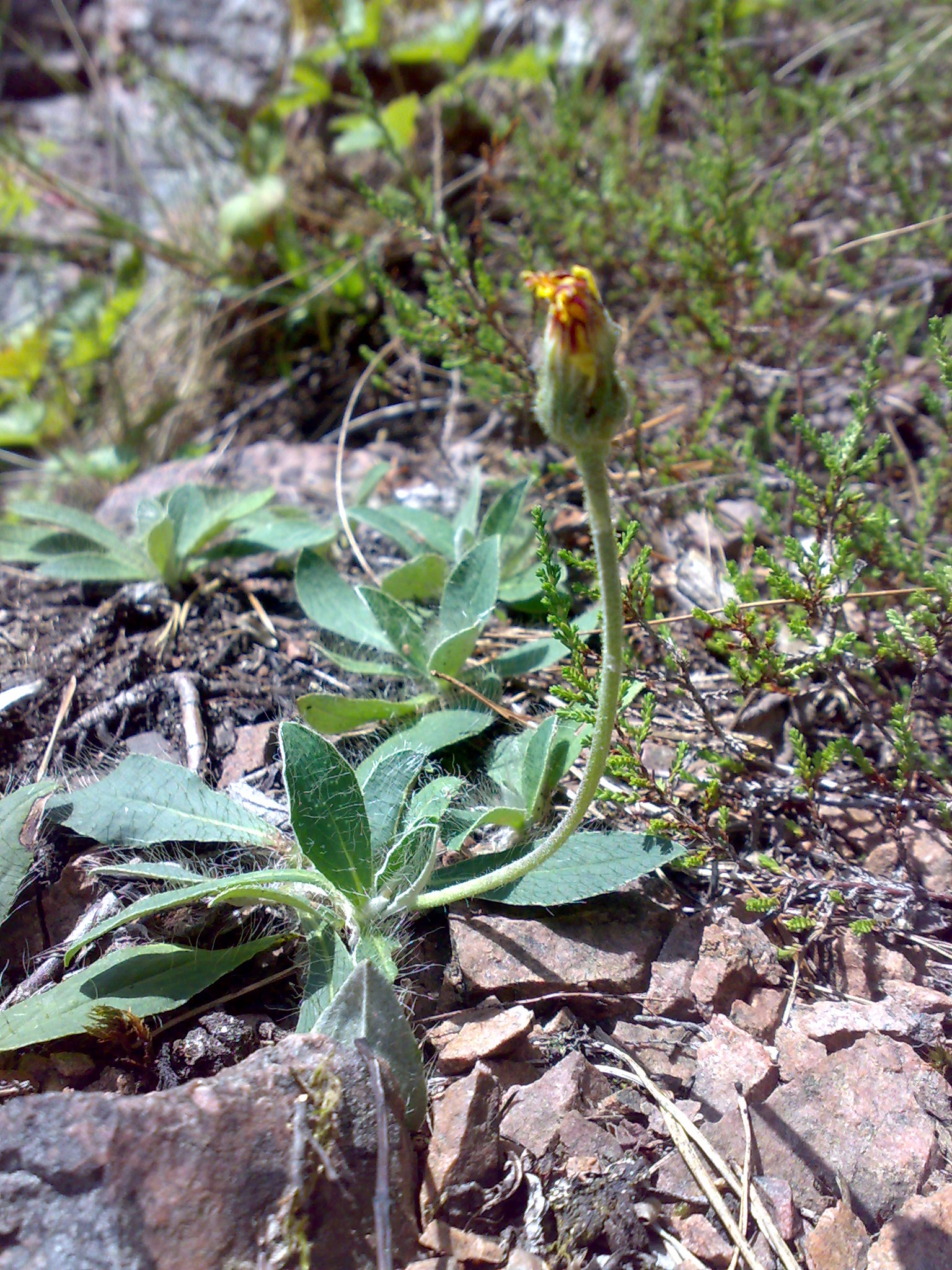 Pilocella peleterina Hurum, Norway